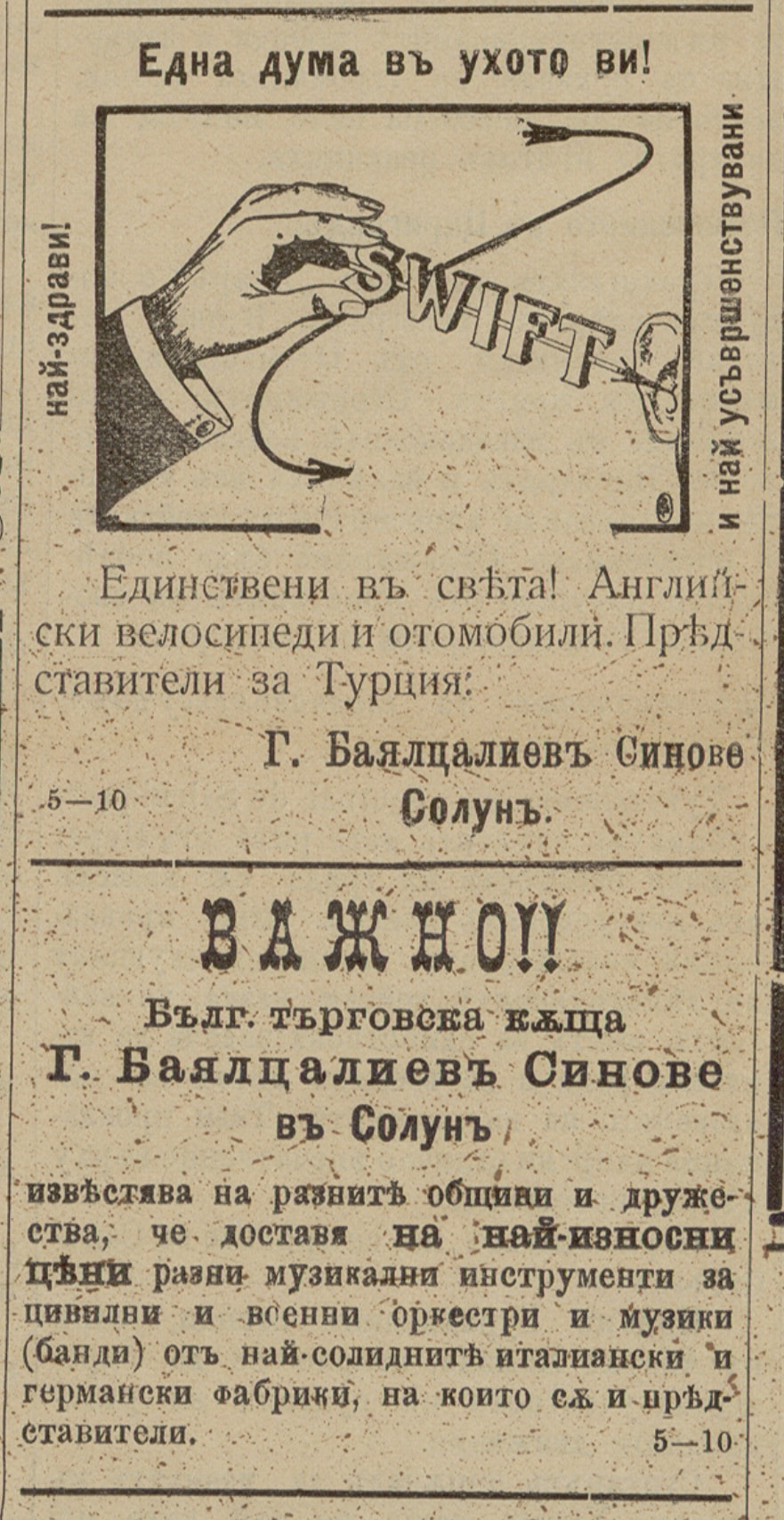 Bayaltsalievi advertisement of Swift Cars and Swift Motocycles.